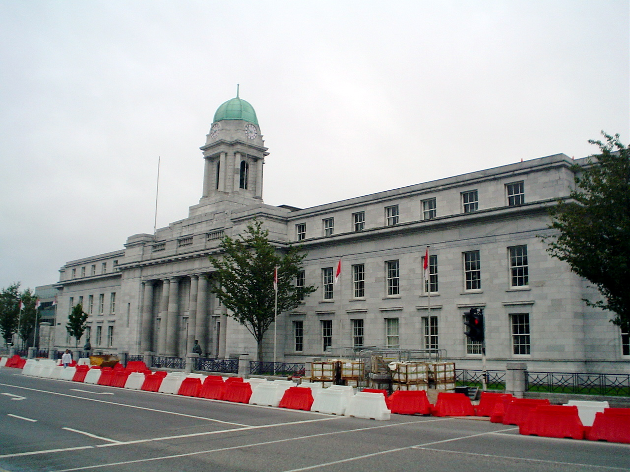 Cork City Hall